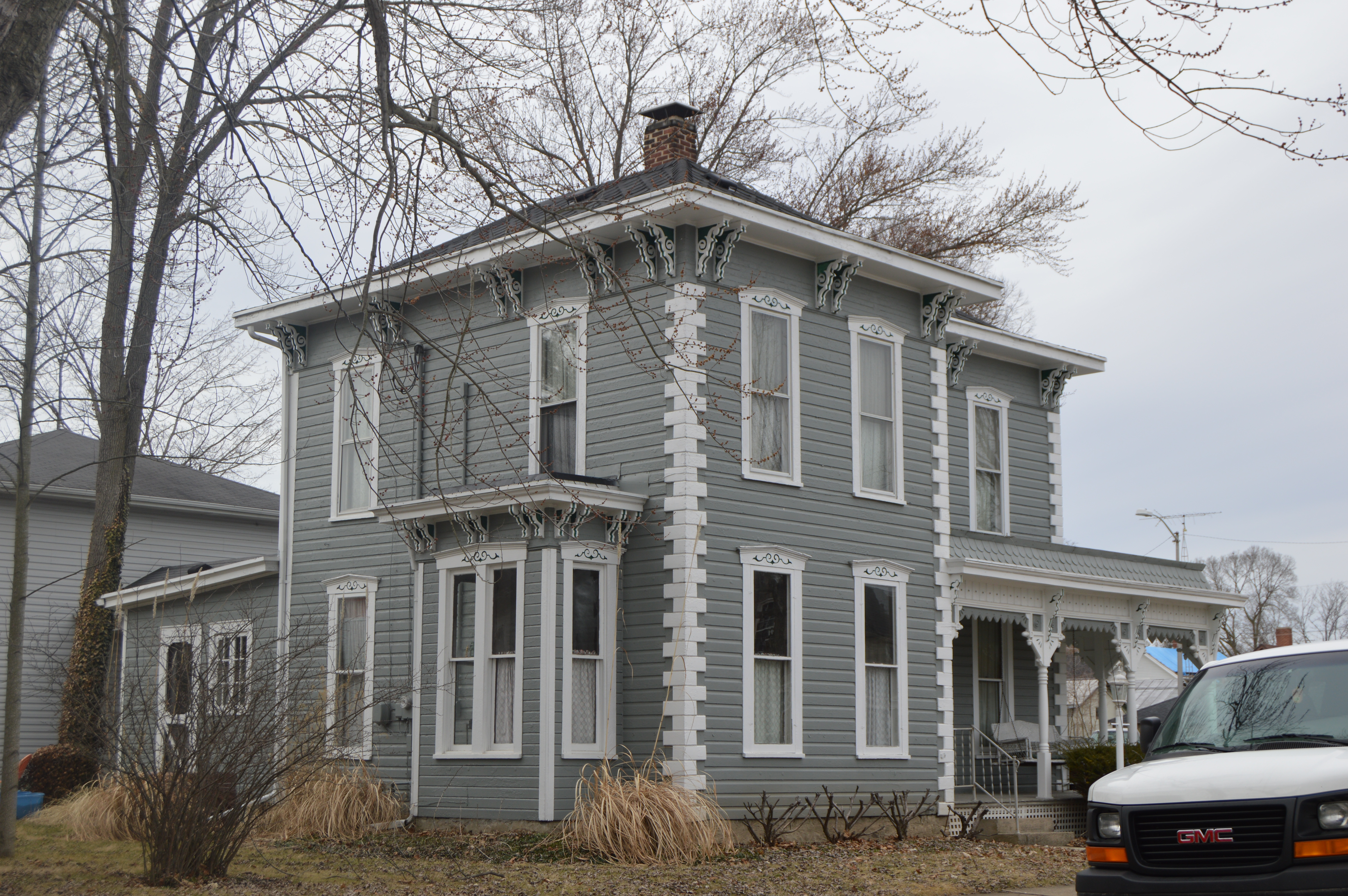 Eastern and northern sides of the John and Caroline Stonebraker House, located at 100 S. Washington Street in Hagerstown, Indiana, United States. Built in 1875, it is listed on the National Register of Historic Places.